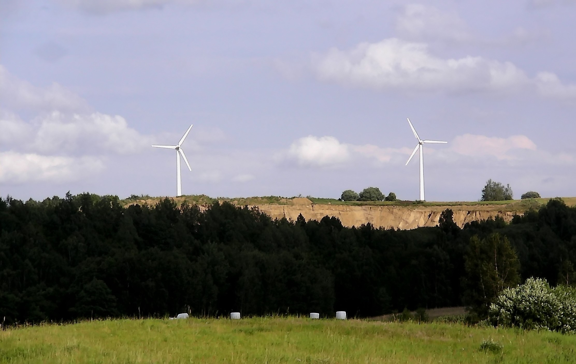 WIDOK NA WSCHÓD.